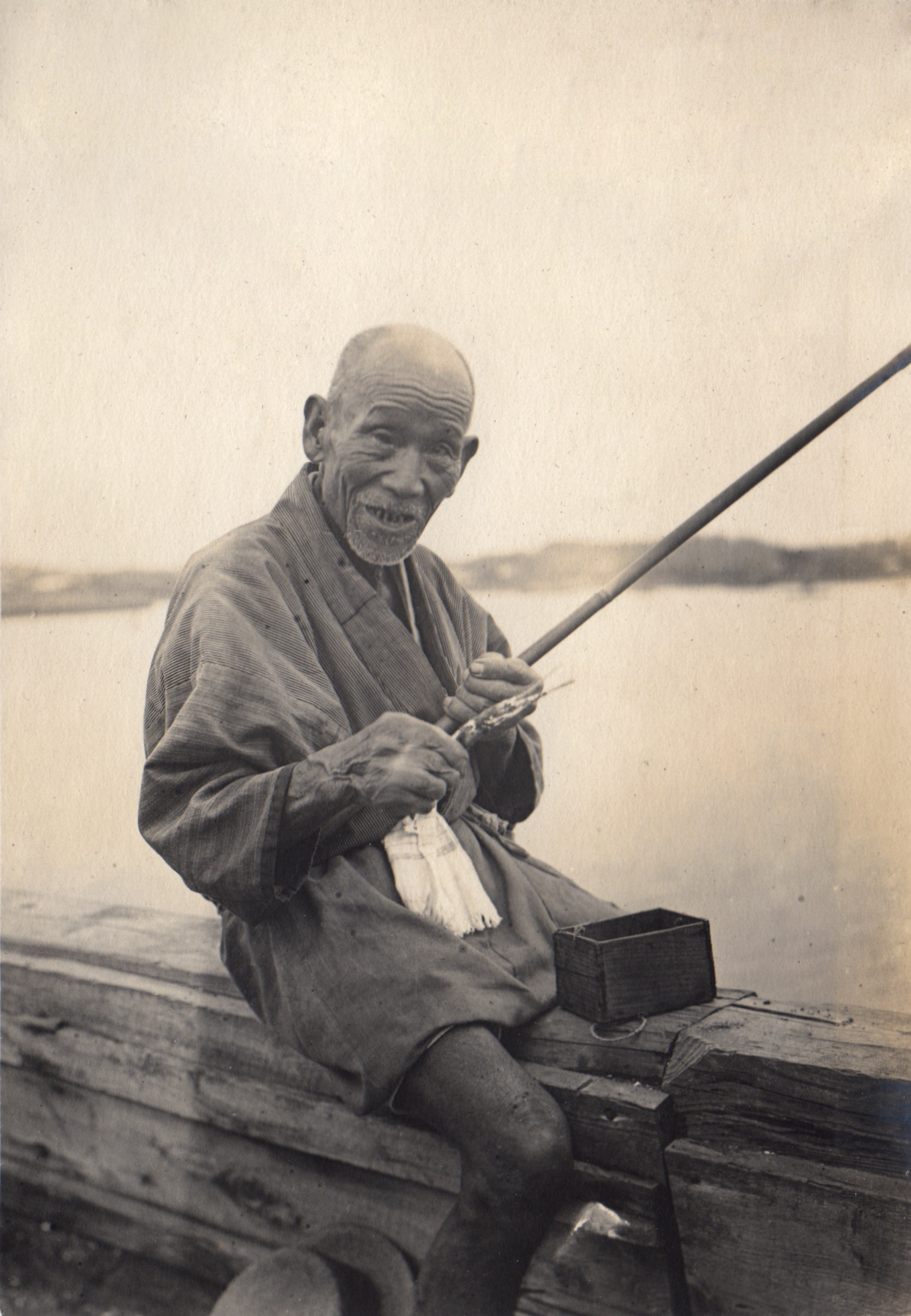 This photo is from an album Elstner Hilton compiled in Japan between 1914 and 1918. Elstner was my spouse's uncle. While Uncle Elstner was pretty good about annotating the photos that required an explanation of some sort, he did not date the pictures. So all we know is they were taken between January, 1914 and December, 1918.